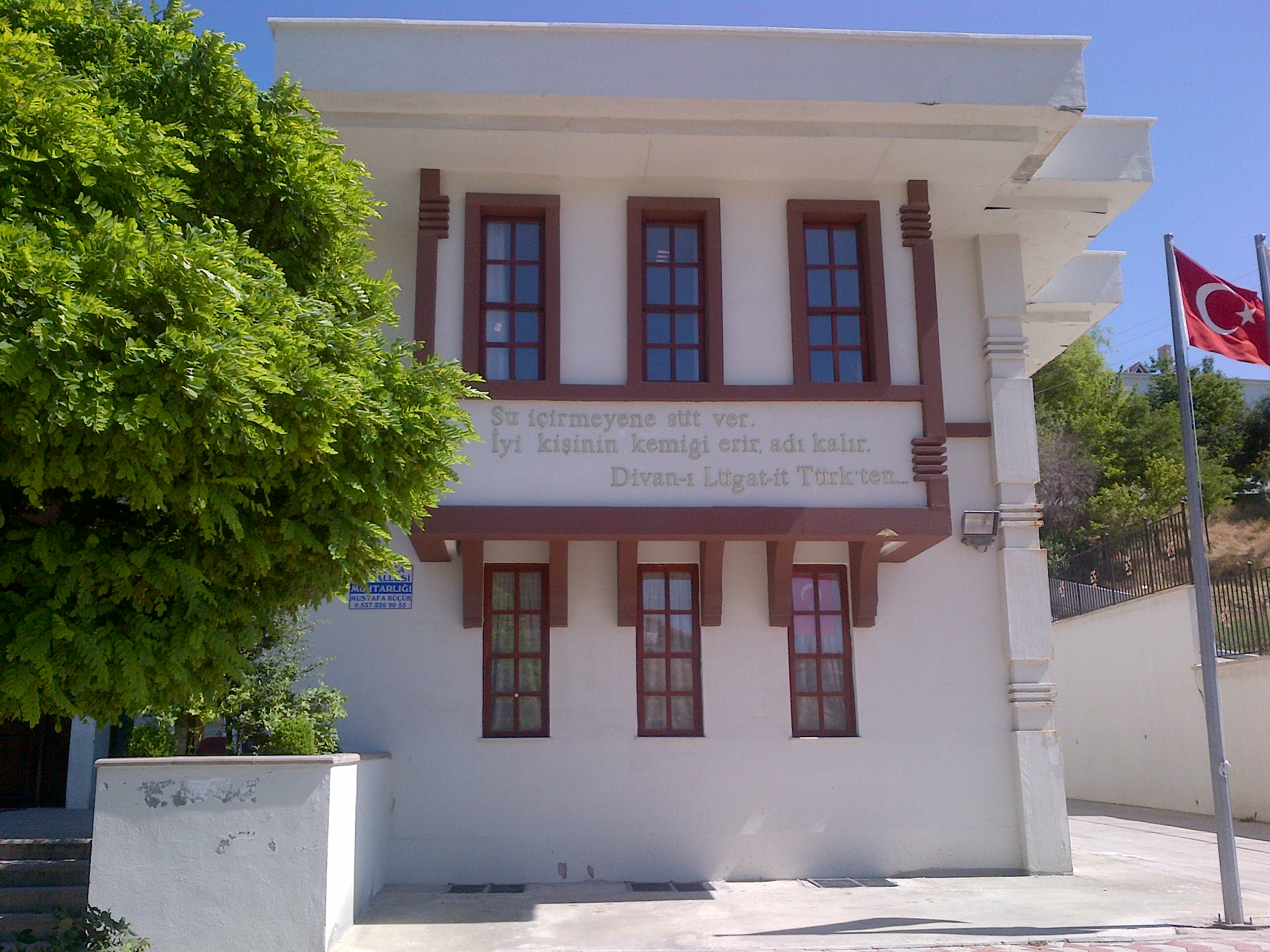 Divan-ı Lugatut Turk, or "Turkish Language Divan" of 1074 is possibly the oldest book on Turkish language; a very comprehensive work, it contains lexicon, poems and encyclopedical information, even maps. Its writer, Mahmud of Kashgar recites: "Give milk to those that deny you water. The good man's bones will disappear but his name perdures." Wall of a cultural centre in Polatlı, Ankara, Turkey.